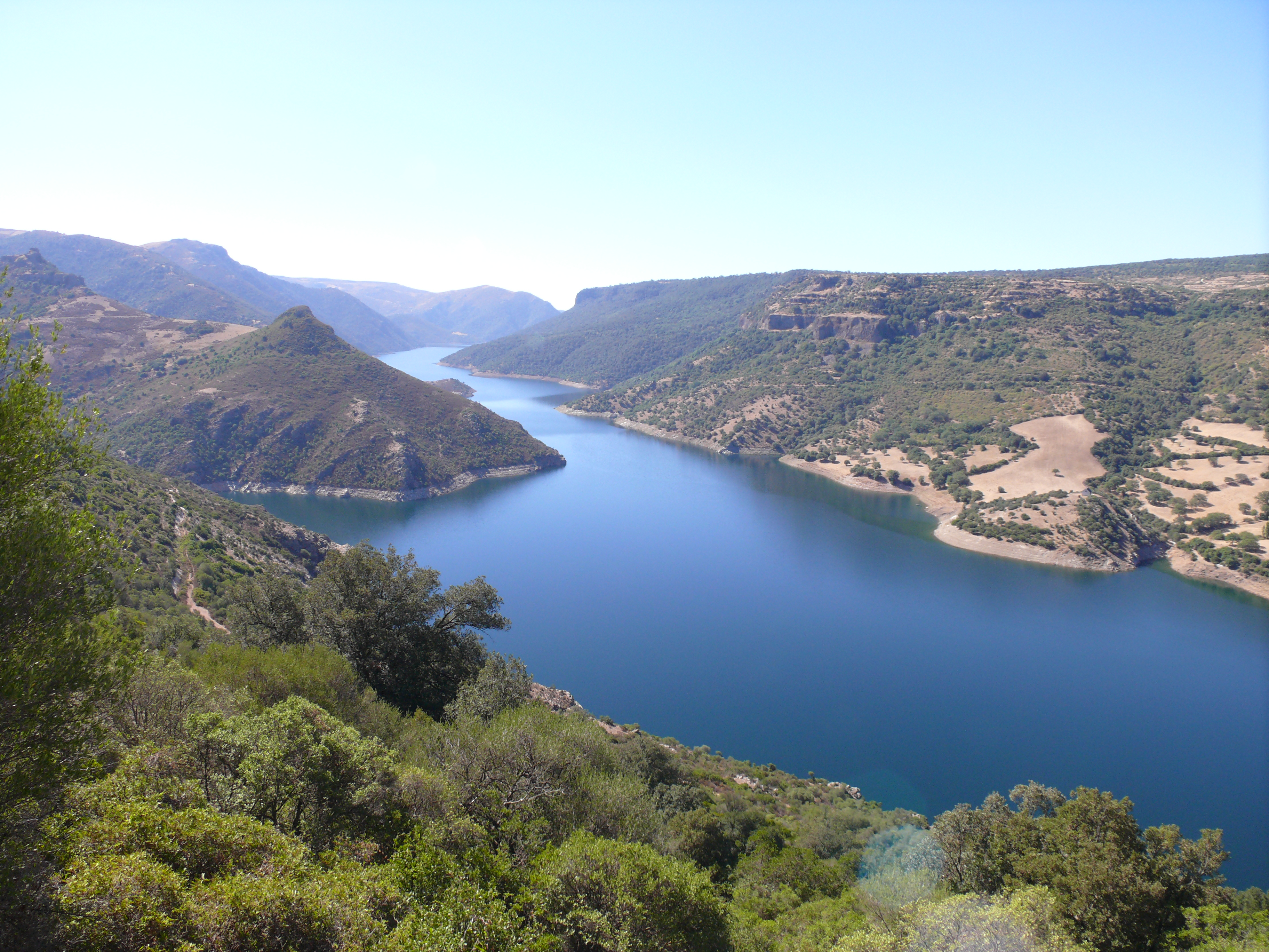 Low Flumendosa lake (Sardinia)